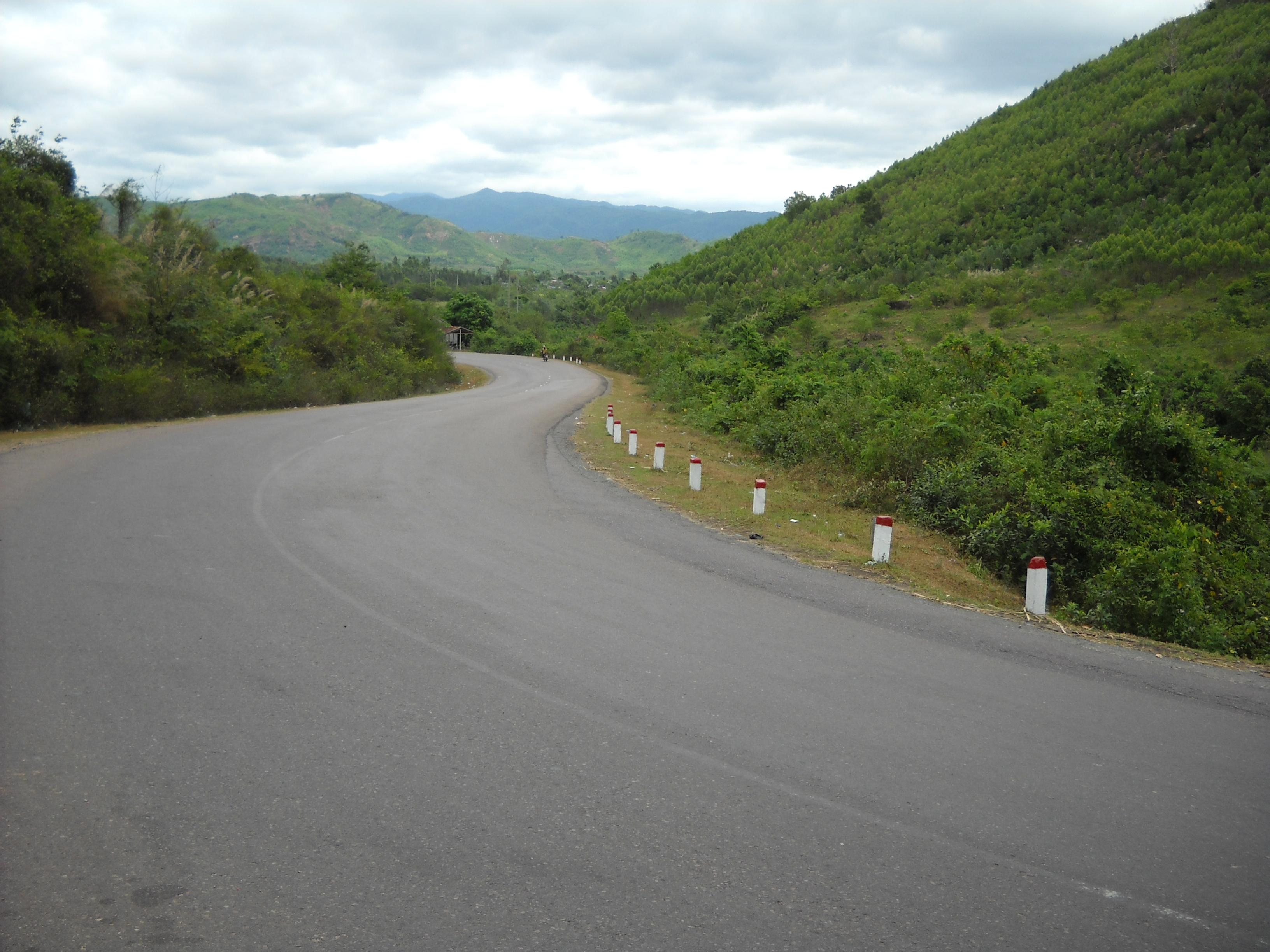 An Khe Mountain pass, between Gia Lai prov. and Bình Định proveince